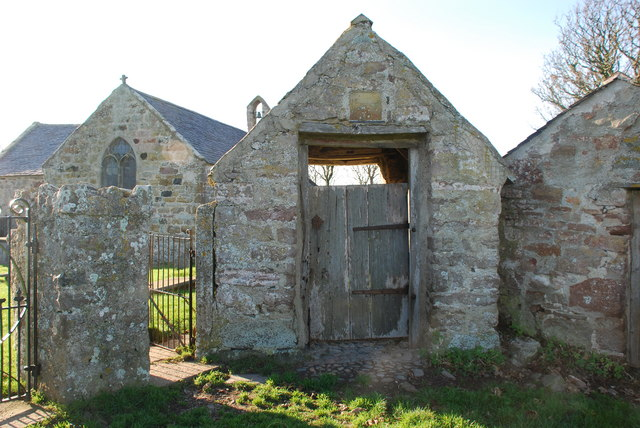 Porth Mynwent Eglwys S Baglan Lych Gate. The door of the Lych Gate is as ancient as it looks, judging by the carvings on the inside. See 615086